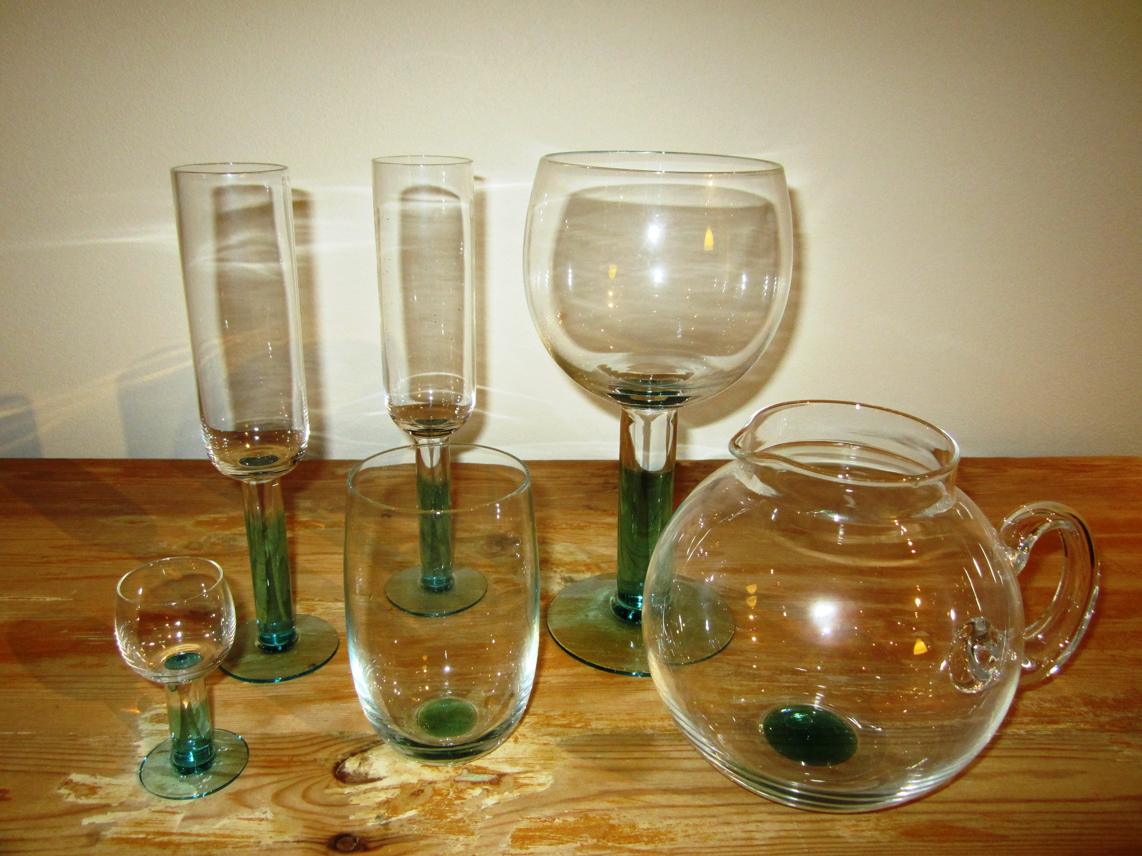 Mondo glassware by designer Kerttu Nurminen